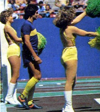 Player of Boca Juniors, José L. Tesare, with a group of cheerleaders before the match vs NY Cosmos at Giants stadium.